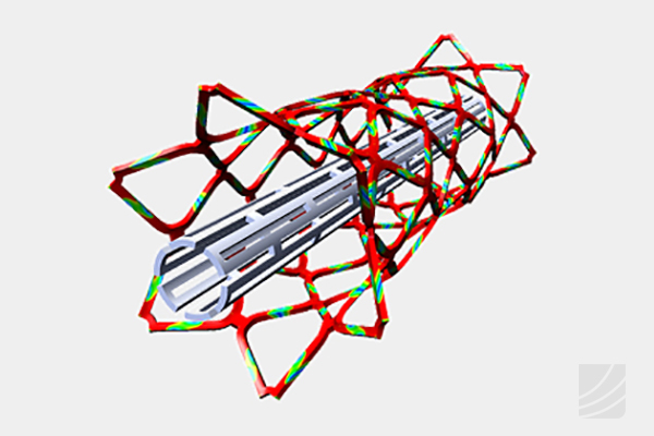 Cardiovascular stents are commonly used in angioplasty in order to treat coronary heart disease. Analysis performed on SimScale.